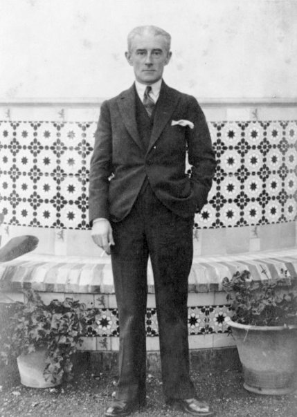 French composer Maurice Ravel in Malaga in November, 1928